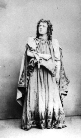 Cropped version of Wikimedia file Medea1.jpg